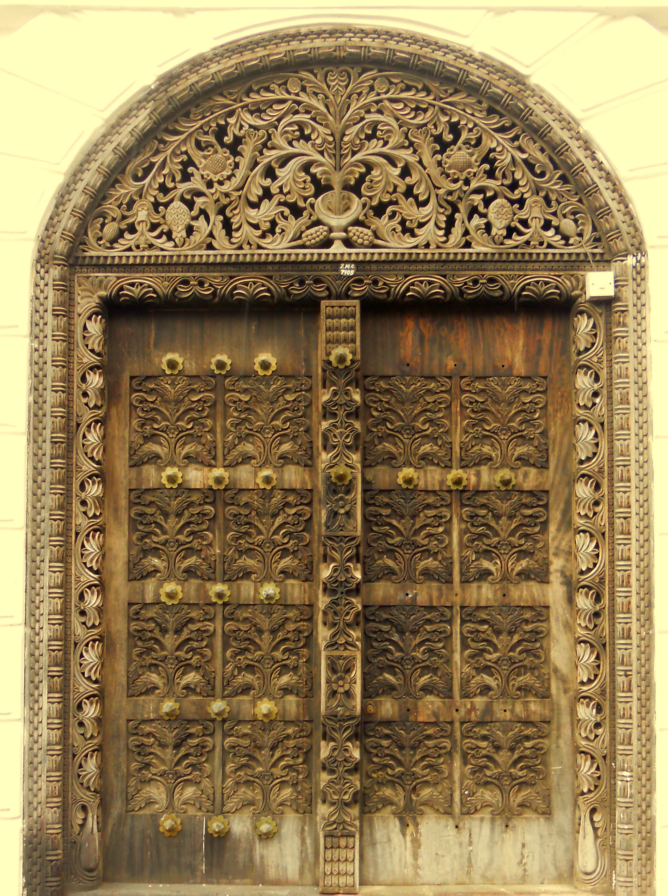 Traditional door found in Stone Town, Zanzibar